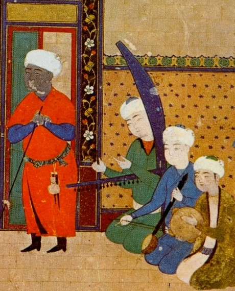 Angled harp on a Persian miniature. The Wedding of Princess Mihr and Nahid. From a "Mihr-u Mushtari" by Muhammad Assar Tabrizi. Bukhara, Uzbekistan, 1523-1524. Freer Gallery, Smithsonian Institution, Washington, D.C., United States)